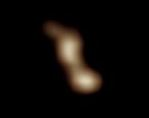 This image was created from a composite of two images which were taken 914 seconds and 932 seconds after the recent Deep Space 1 (DS1) encounter with the asteroid 9969 Braille by the Minature Integrated Camera Spectrometer (MICAS). Interpolated values were then computed for each pixel in the final image based on the neighboring pixels of the composite. The interpolation minimizes the spatial frequency artifacts of the final image. The Sun is illuminating Braille from below. Braille (also known as 1992 KD) was discovered on May 27, 1992 by astronomers Eleanor Helin and Kenneth Lawrence using the 46 centimeter (18 inch) Shmidt telescope at Palomar Observatory, while scanning the skies as part of the Palomar Planet-Crossing Asteroid Survey. Deep Space 1 was launched into orbit around the Sun on October 24, 1998 at 5:08 a.m. Pacific Daylight Time from Cape Canaveral Air Station, Florida on a Delta 7326, a variant of the Delta II rocket. An ion engine, operating for more than 1800 hours, was used to maneuver the spacecraft for an encounter with Braille. The closest approach of DS1 to the asteroid, at an approximate distance of 15 kilometers, occurred on July 29,1999 at 04:45 Universal Time, July 28 at 9:46 p.m. Pacific Daylight Time.